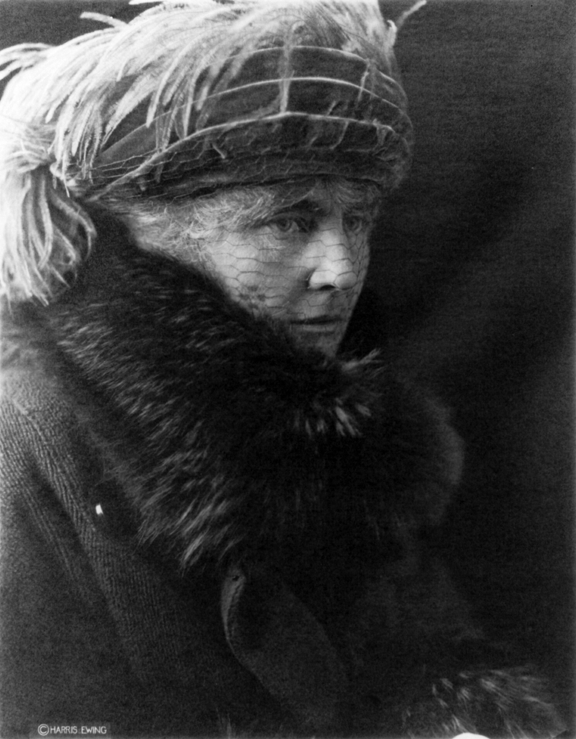 First Lady of the United States Louise Henry Hoover (1874–1944)